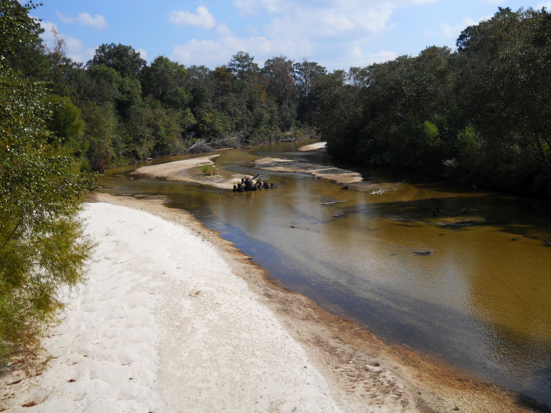 View of Red Creek, taken from City Bridge, looking east in the Big Level community, Stone County, Mississippi, USA.